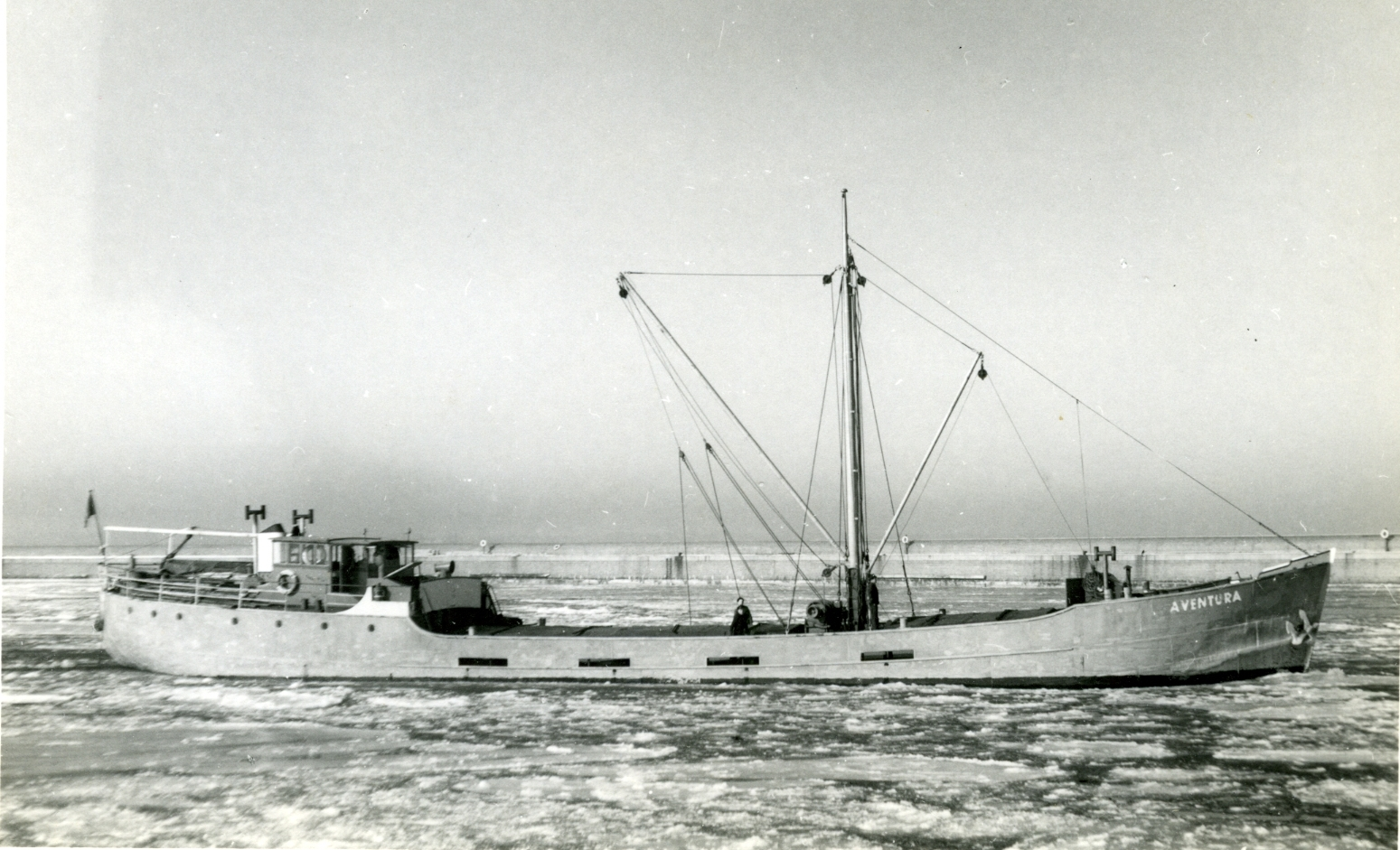 German coaster AVENTURA (IMO 5031468) built at Schiffswerft Heinrich Brand, Oldenburg (yard № 67, launched: 10-1938, completed: 12-1938, delivered: 01-1939), converted to passenger ship for Rhine River charter tours 1992-1996.